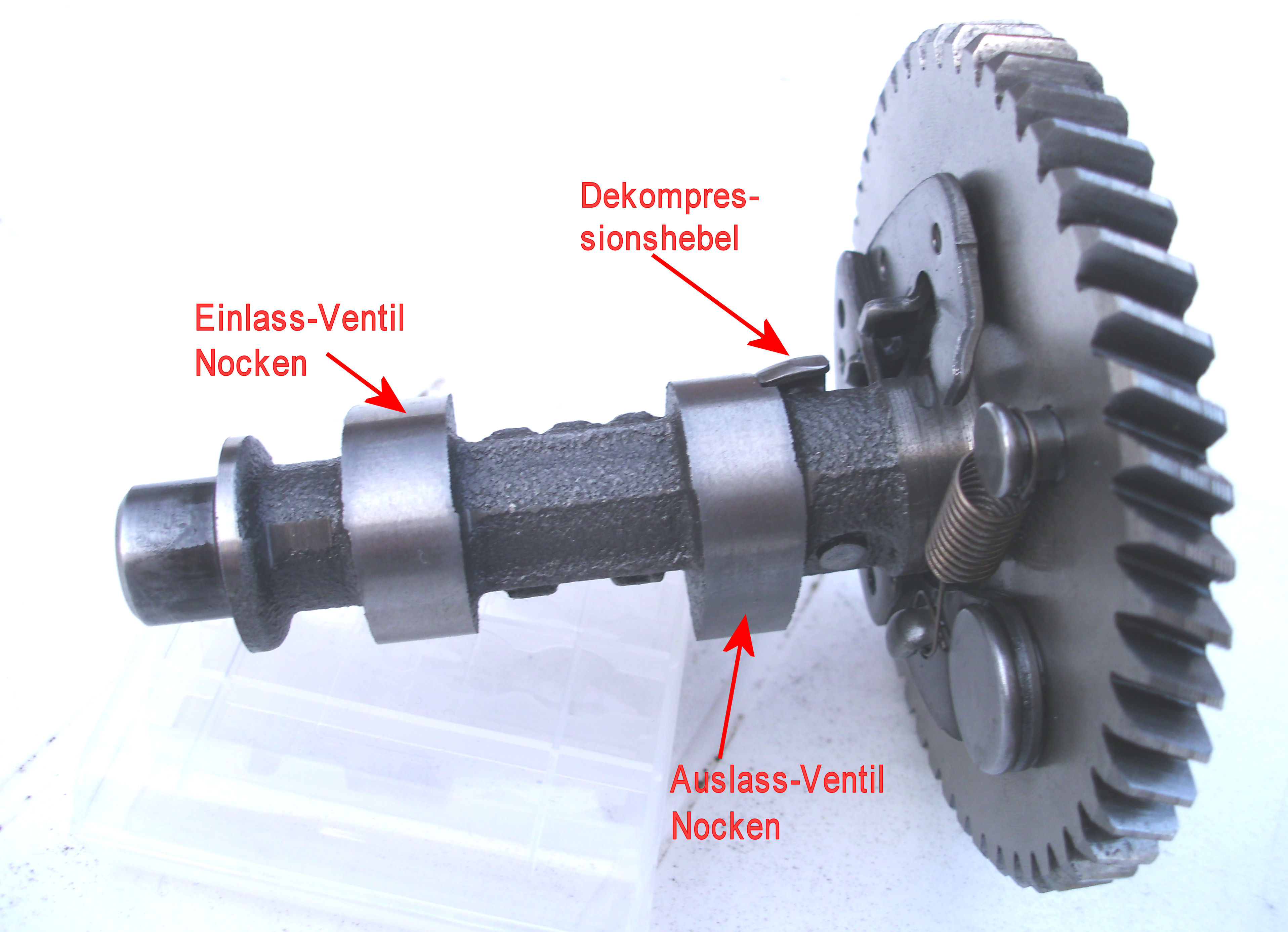 Honda GX 160 camshaft with centrifugal governor actuating a lever for decompression of exhaust valve